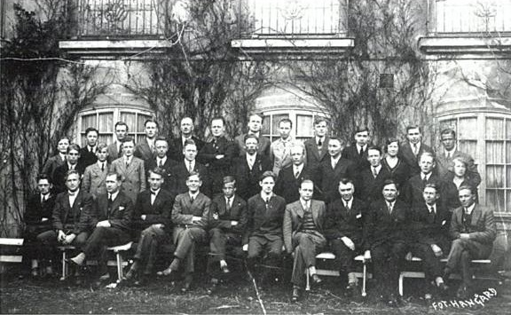 Representatives for the Fatherland League organisation at a course from 1 to 3 April 1932. Anders Lange sits as number two from the left in the front row.